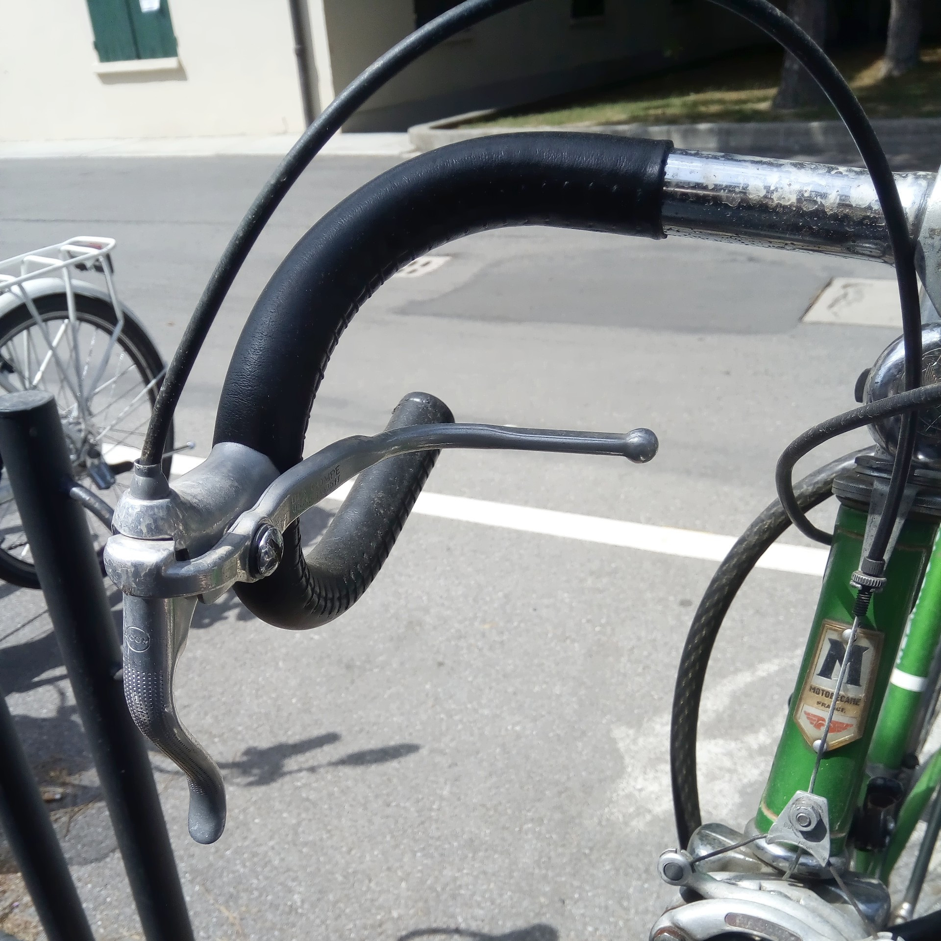 Dual control brake lever, where the accessory lever acts on the main lever.